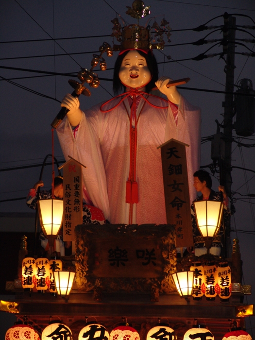 Sawara Matsuri festival in November 2004